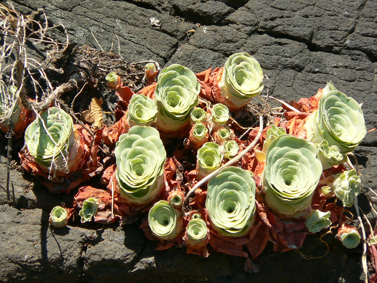 Aeonium aureum It was growing all over a rockwall. It's probably "watered" mostly by the "sea of clouds" which often reaches this area.